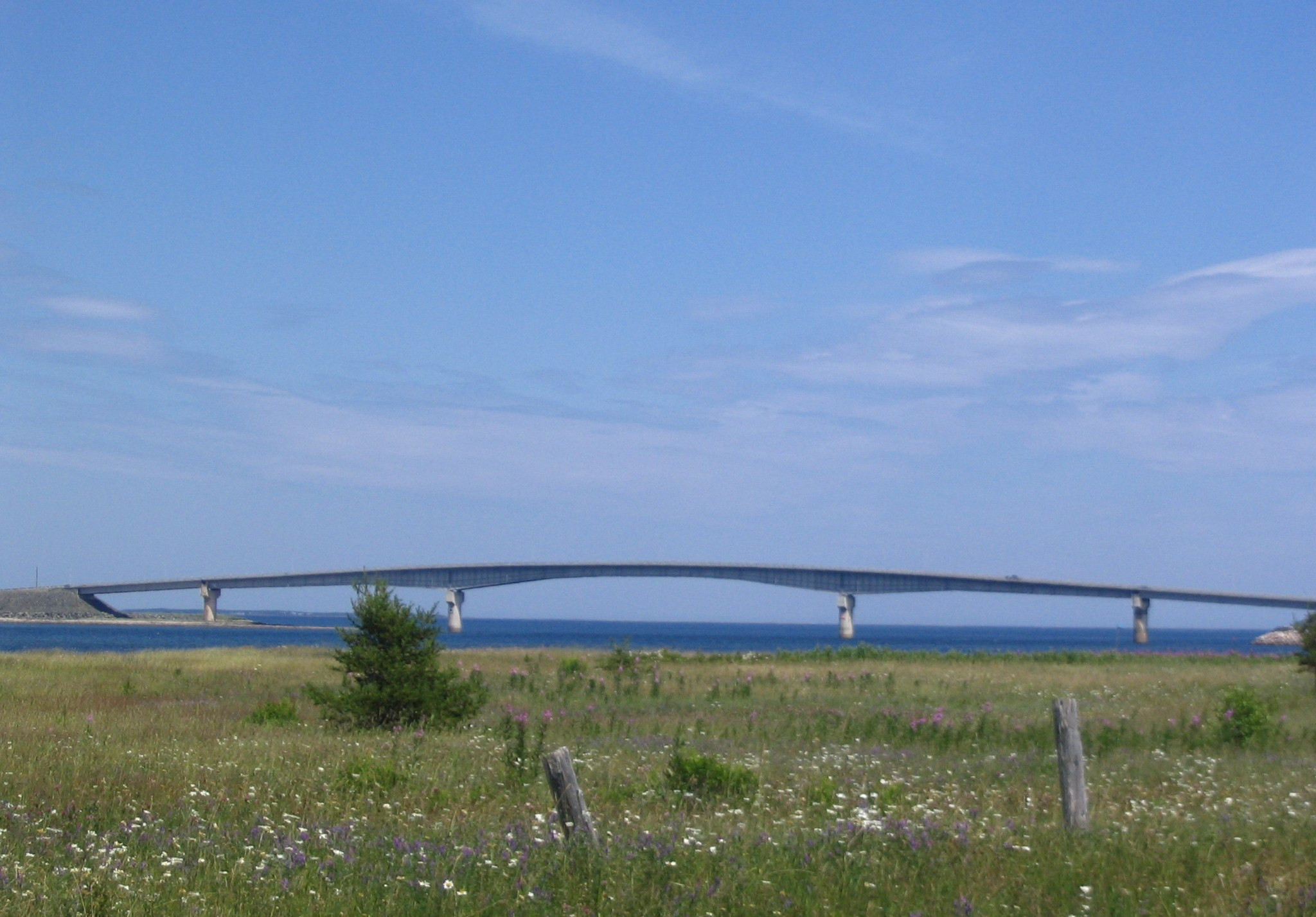 Miscou bridge, northeast New Brunswick, Canada